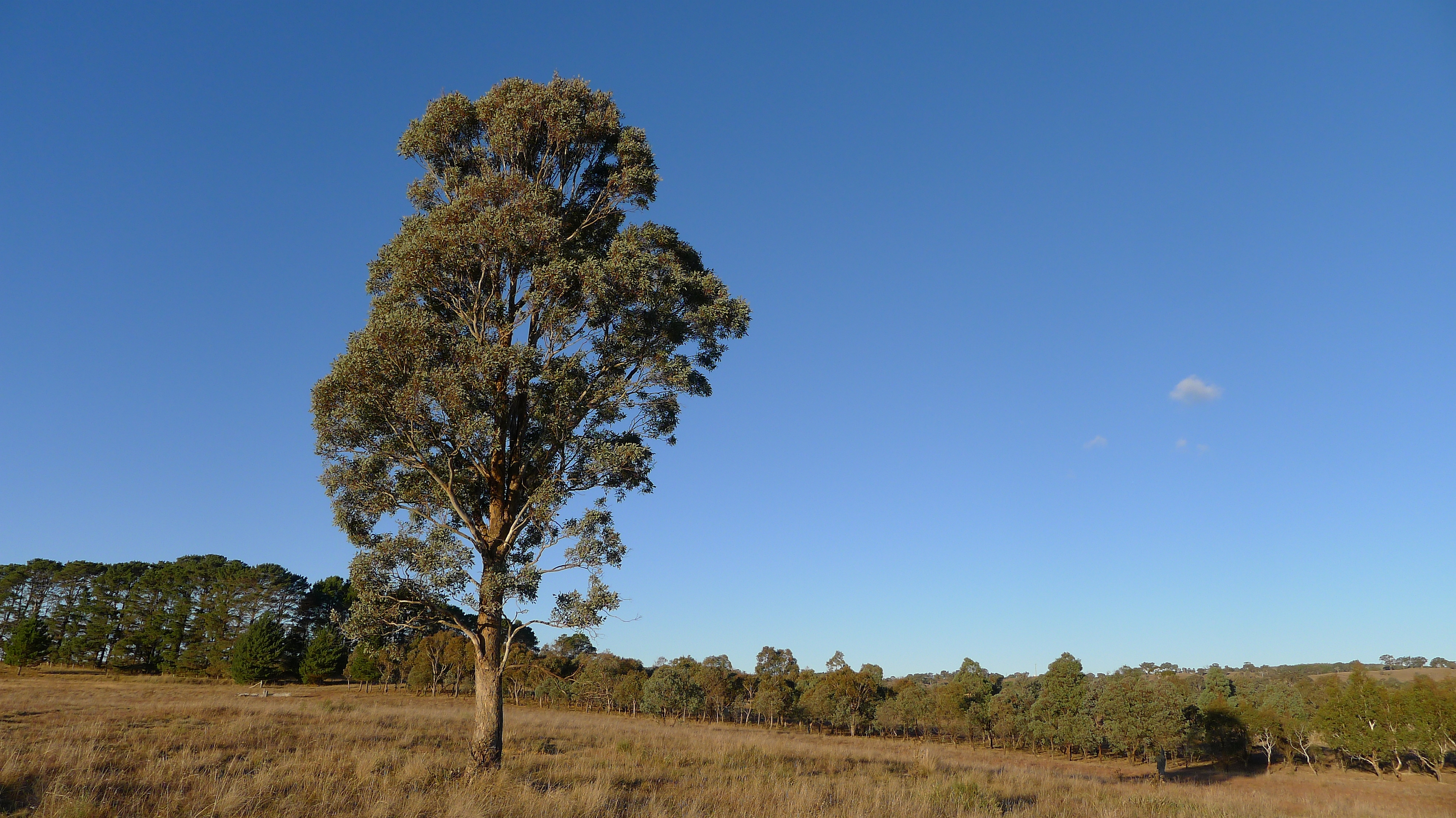 Yellow Box, Eucalyptus melliodora. Gundaroo Common, Gundaroo NSW Australia, May 2013.